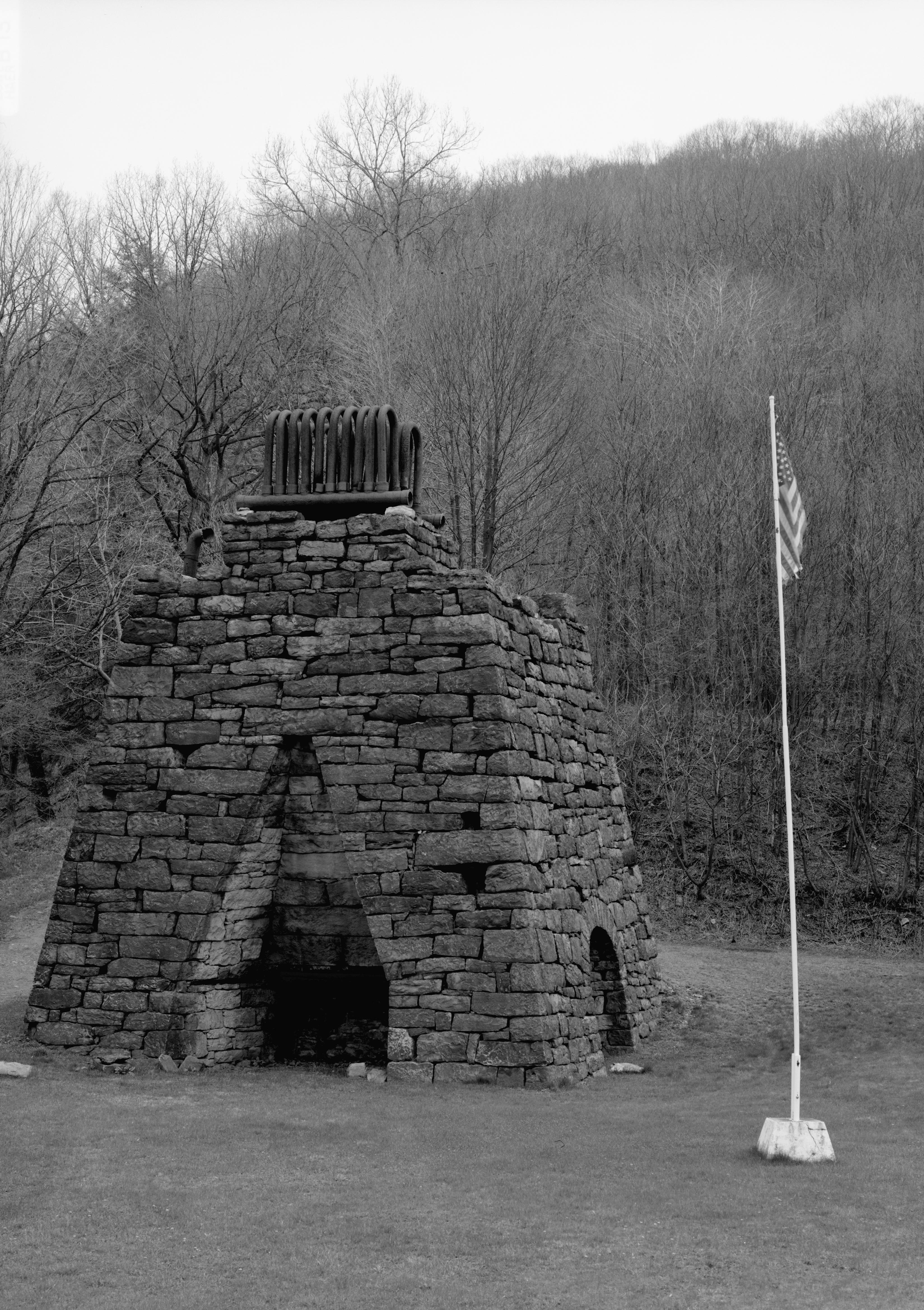 Front of the Eliza Furnace, located off Lower Main Street in Vintondale, Pennsylvania, United States. Built in 1846, it is listed on the National Register of Historic Places.